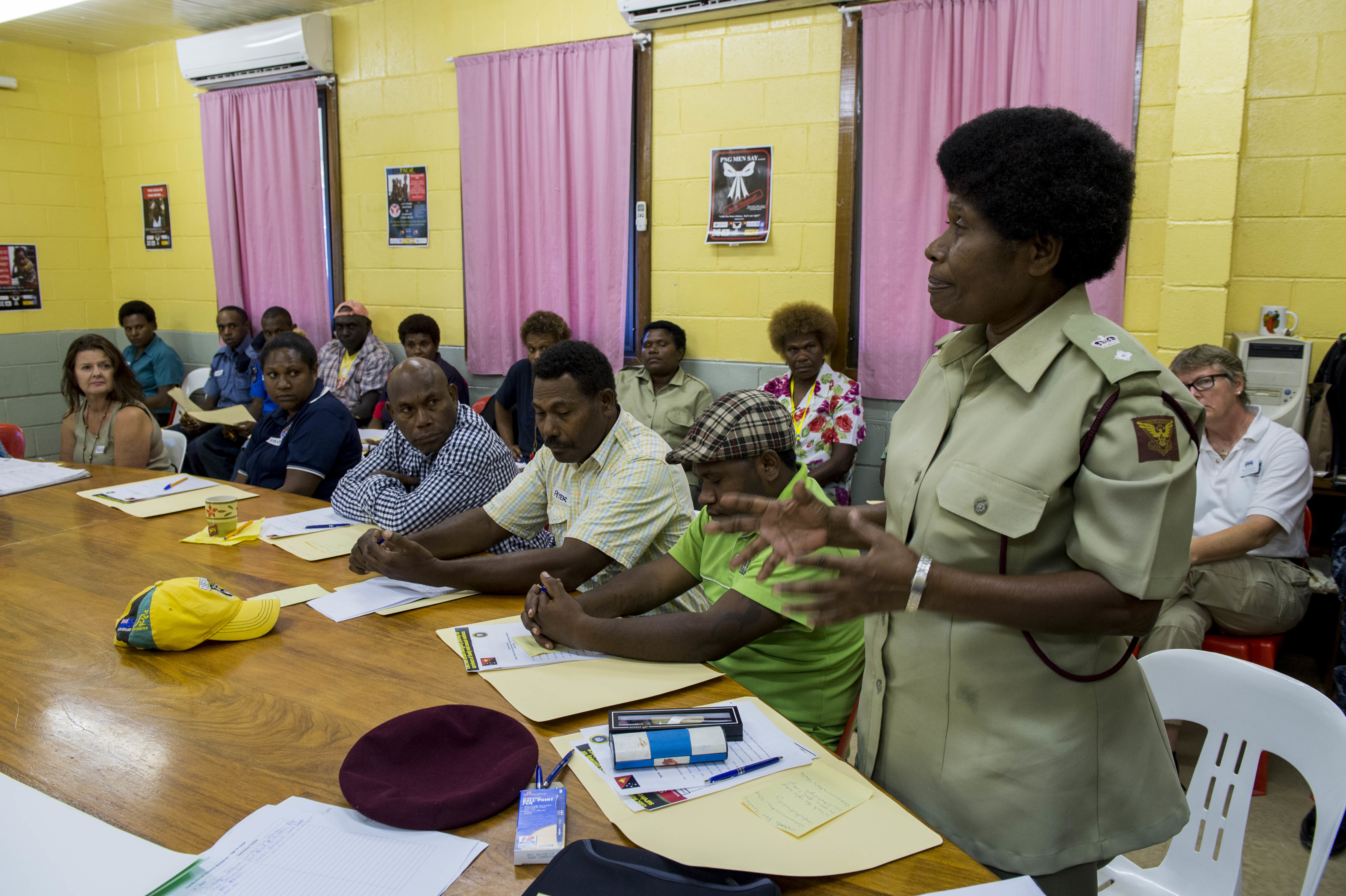 KOKOPO, Papua New Guinea (July 8, 2015) Margaret Garap, the Karevat Correction Institution deputy commander, speaks about crime punishment at the Kokopo Fire Station during a family violence prevention workshop as part of Pacific Partnership 2015. Leaders from Kokopo and the hospital ship USNS Mercy (T-AH 19) conducted the workshop as part of the National Action Plan on Women, Peace and Security. Mercy is currently in Papua New Guinea for its second mission port of PP15. Pacific Partnership is in its 10th iteration and is the largest annual multilateral humanitarian assistance and disaster relief preparedness mission conducted in the Indo-Asia-Pacific region. While training for crisis conditions, Pacific Partnership missions to date have provided real world medical care to approximately 270,000 patients and veterinary services to more than 38,000 animals. Critical infrastructure development has been supported in host nations during more than 180 engineering projects. (U.S. Air Force photo by Senior Airman Peter Reft/RELEASED)